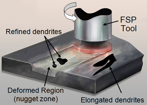 Schematic of friction stir processing (FSP). The underlying material is subjected to high strain during FSP resulting in fragmentation and homogeneous distribution of the dendrites. The highly strained material in the nugget zone comprises fine dendrites compared to elongated ones in the un-deformed region.